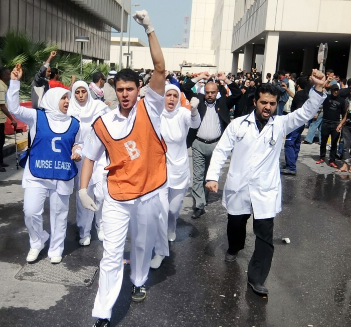 Medical staff at Salmaniya Medical Complex, march near the hospital in response to news that their paramedic crews and doctors were attacked by police after police stormed the protest site in Lulu Square in Manama, Bahrain 17 February 2011. At least three demonstrators were killed early 17 February during the police attack on protesters who were pushing for government reform.